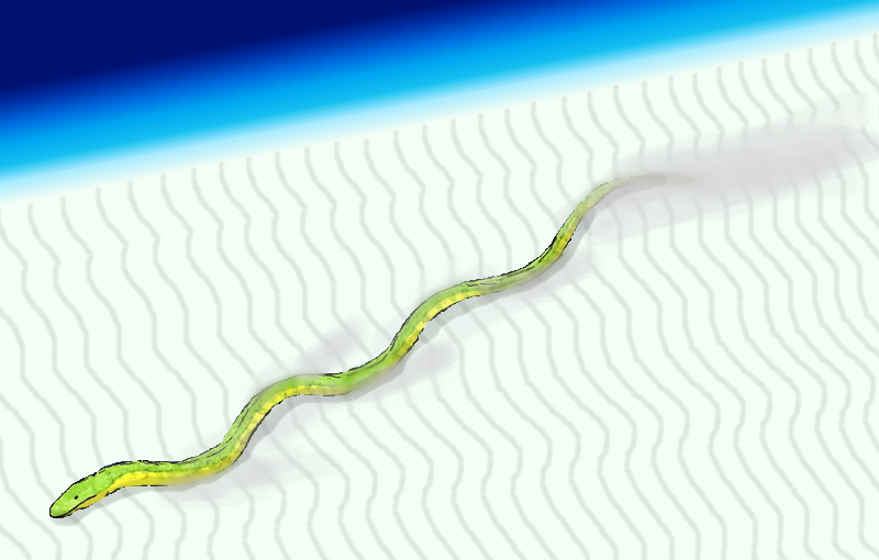 Gigantophis, a 10-11 meter long snake from the Fayum-valley of Egypt. Its remains date from the Late-Eocene and it coexisted with primitive whales and various types of primitive proboscideans. It was hypercarnivorous and may have led an amphibious lifestyle.